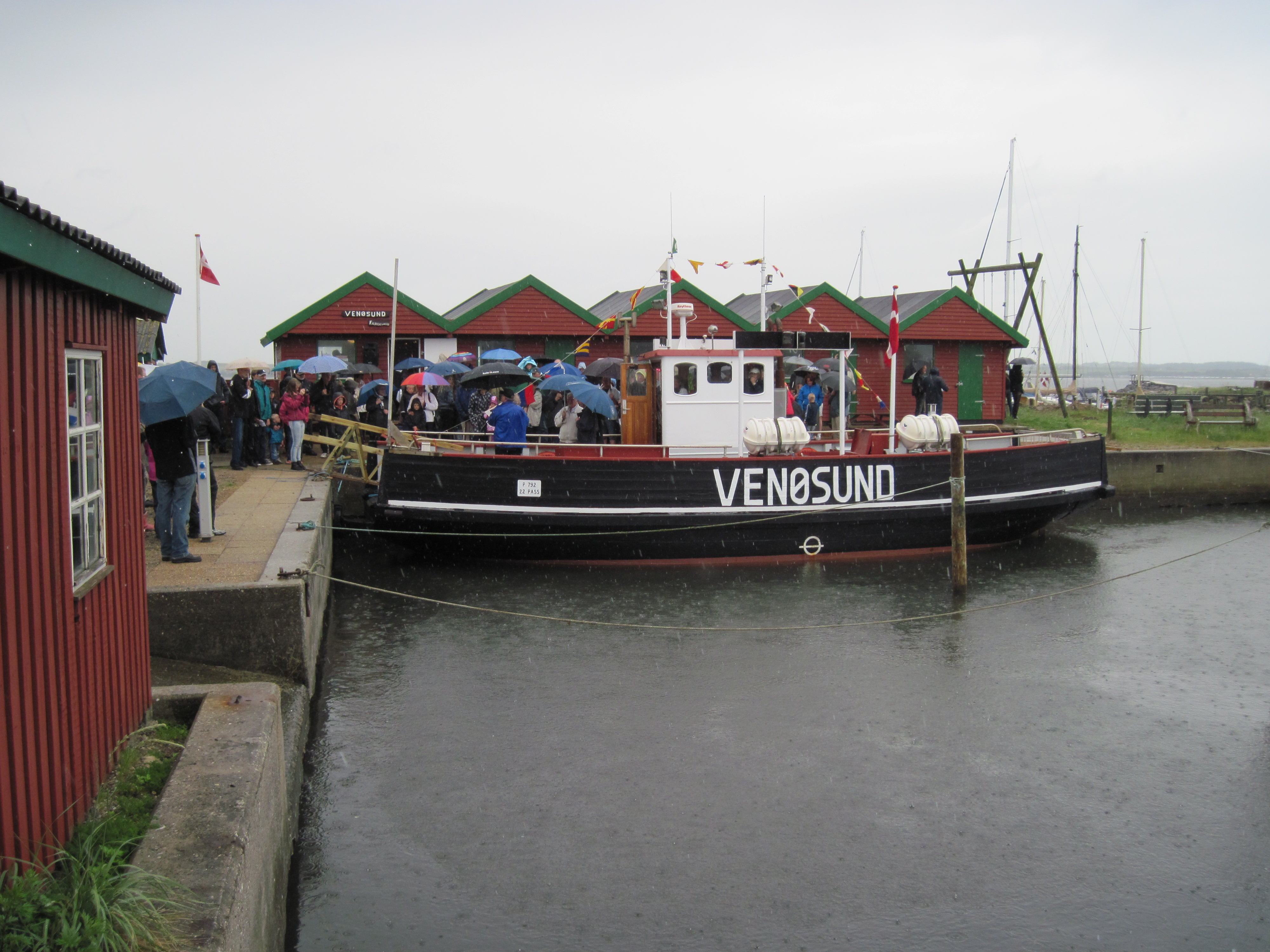 MF/ Venoesund arrives at Venø Havn